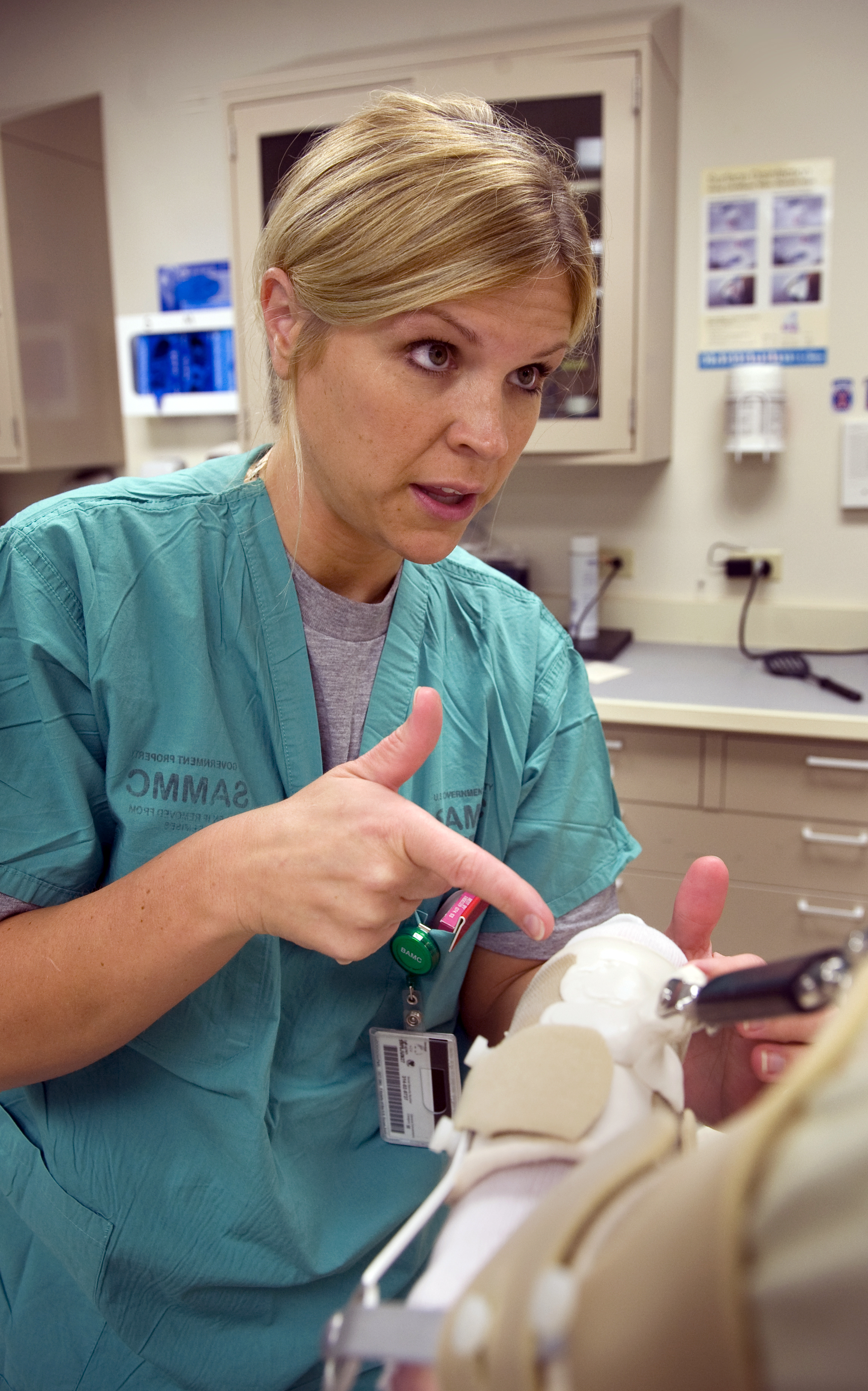 SAN ANTONIO (Aug. 13, 2009) Army Capt. Michelle Greer, chief of occupational therapy at Brooke Army Medical Center in San Antonio, Texas, adjusts a turnbuckle splint on a patient. (U.S. Navy photo by Mass Communication Specialist 2nd Class Jhi L. Scott/Released)